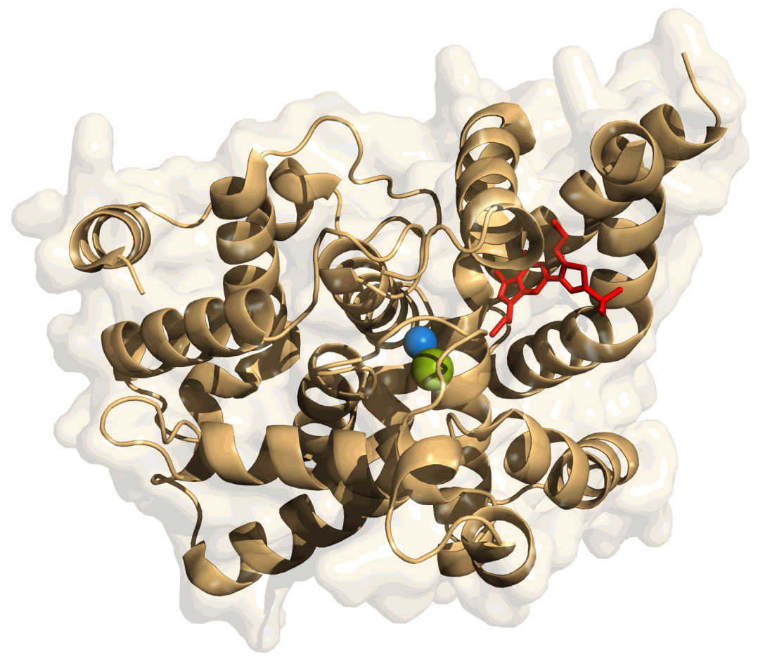 Phosphodiesterase-5, according to PDB 3BJC. Magnesium ion (green), zinc ion (blue), inhibitor "compound 12" (red)